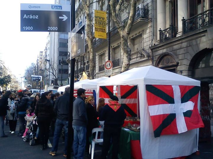 Basque festival in Buenos Aires, August 2011